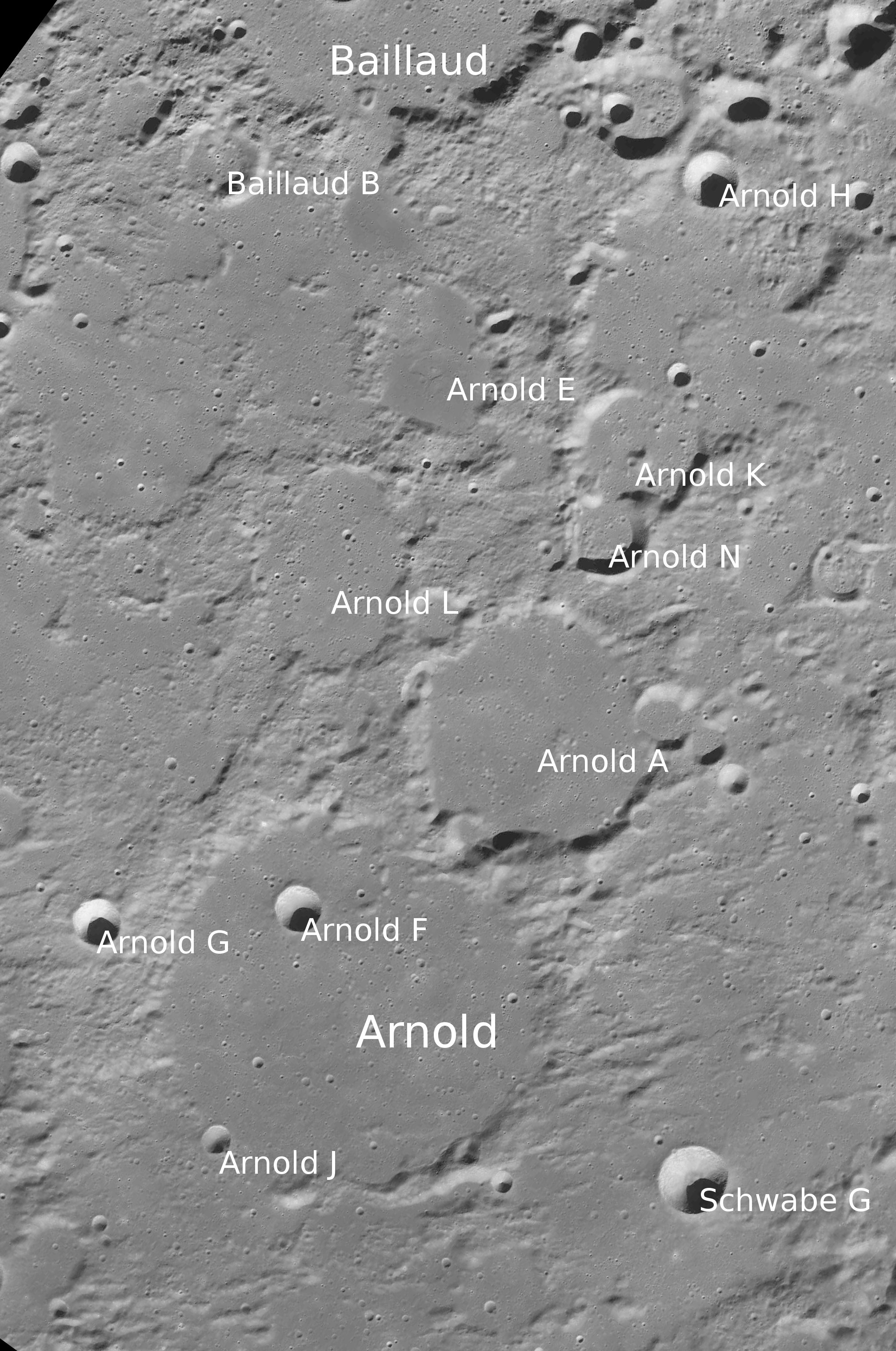 Moon crater Arnold with satellite features (north at top; detail of LRO - WAC north pole mosaic)